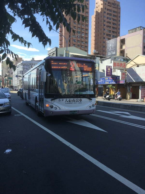 Sunwin bus 077-U9 of Tainan Bus on Section 2, Minsheng Road, Tainan City.